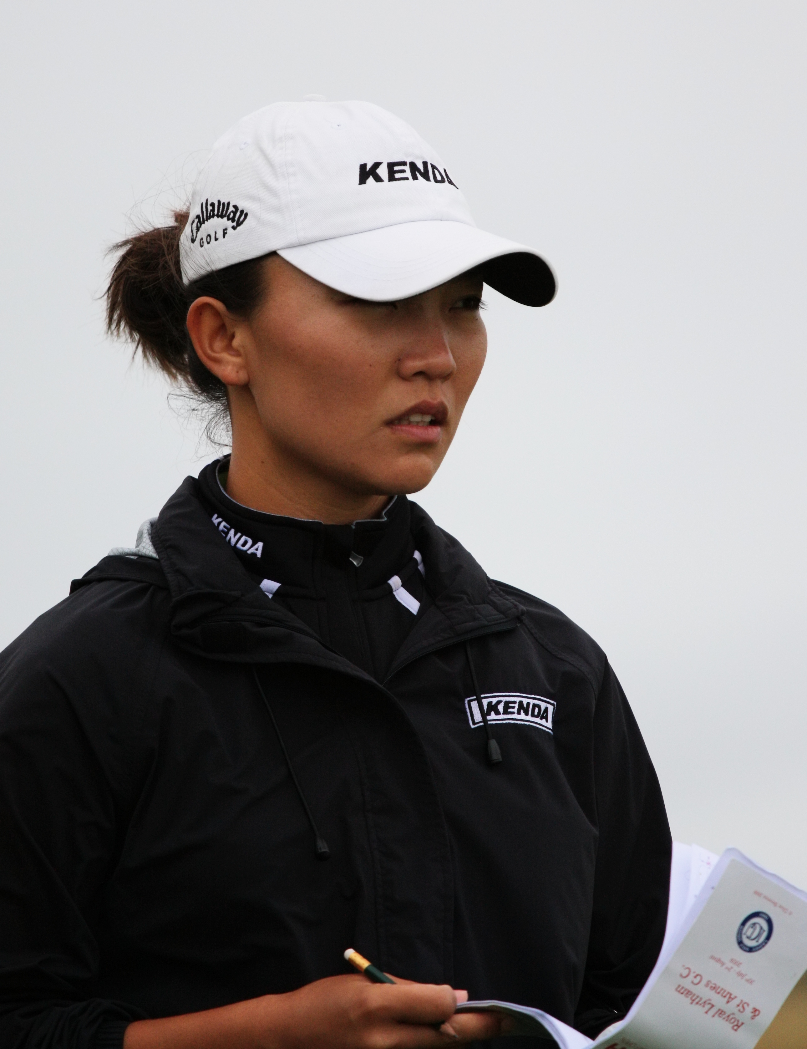 LYTHAM ST ANNES, UNITED KINGDOM - JULY 29: Teresa Lu of Taiwan on the 5th tee during third practice round before 2009 Ricoh Women's British Open held at Royal Lytham & St Annes on July 29, 2009 in Lytham St Annes, England. (Photo by Wojciech Migda)